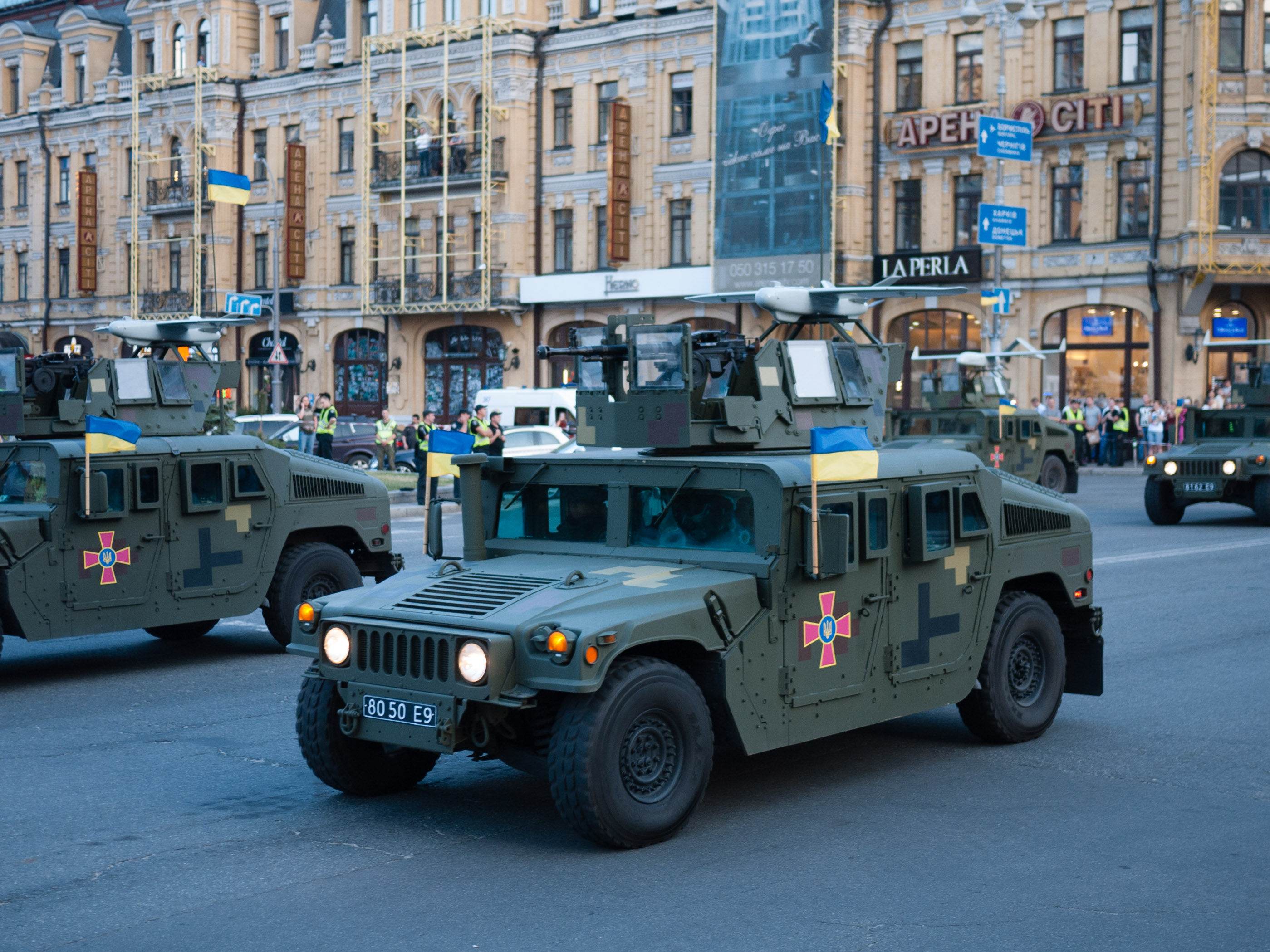 Humvee and Leleka UAV, rehearsal for the Independence Day military parade in Kyiv, 2018